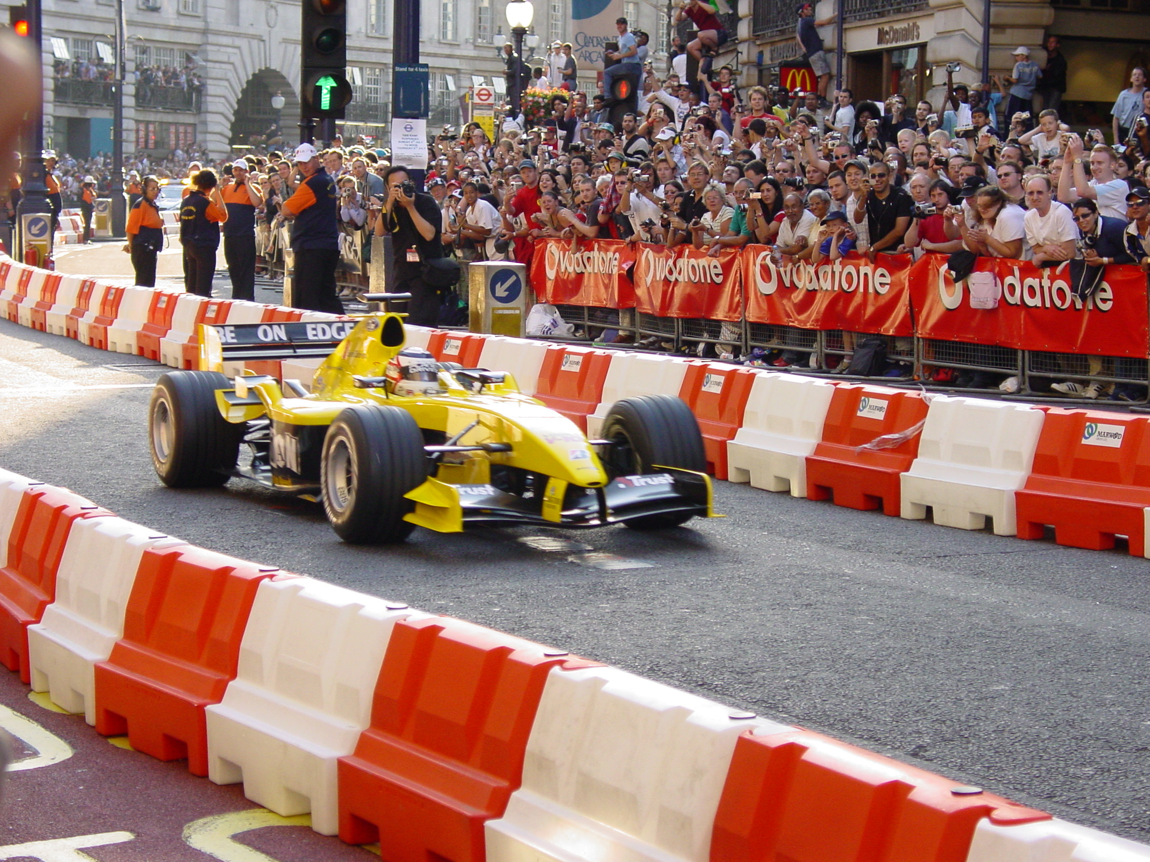 Nigel Mansell driving a Jordan Formula One car at a demonstration in London, 2004.